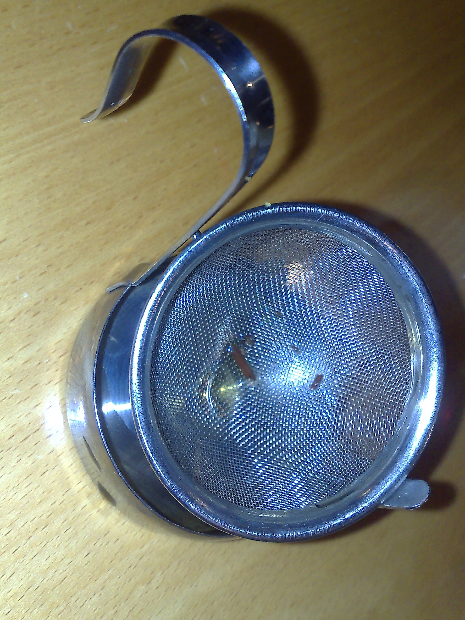 Tea strainer. The Swan Hotel, Lavenham in Suffolk